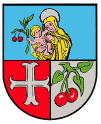 Coat of arms of Börrstadt